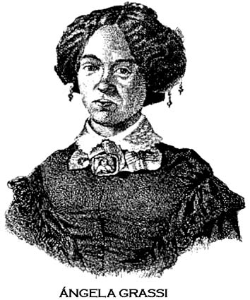 portrait